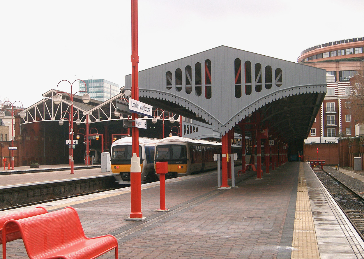 The new platforms 5 + 6 at London Marylebone station as seen in December 2006. Photographed by SP Smiler